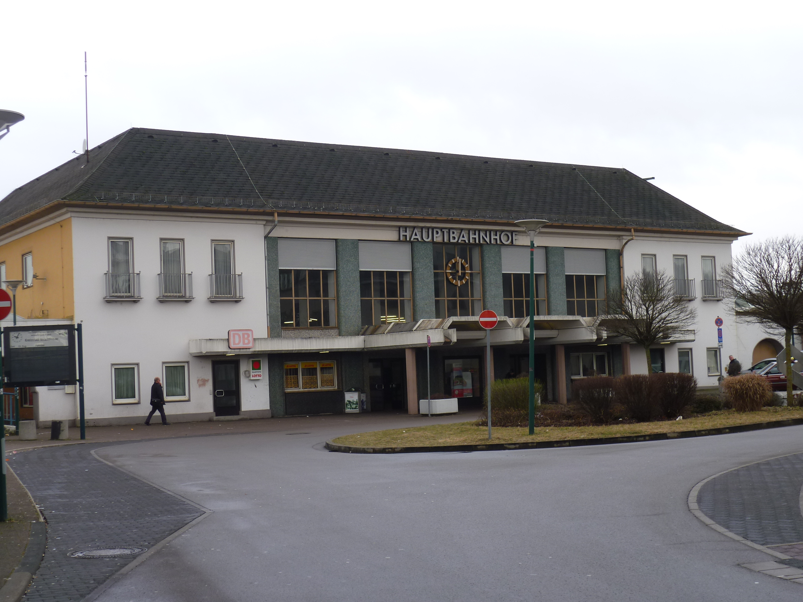 Train station in Neunkirchen (Saar)